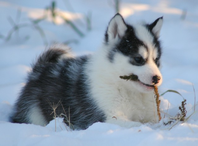 CED Puppy